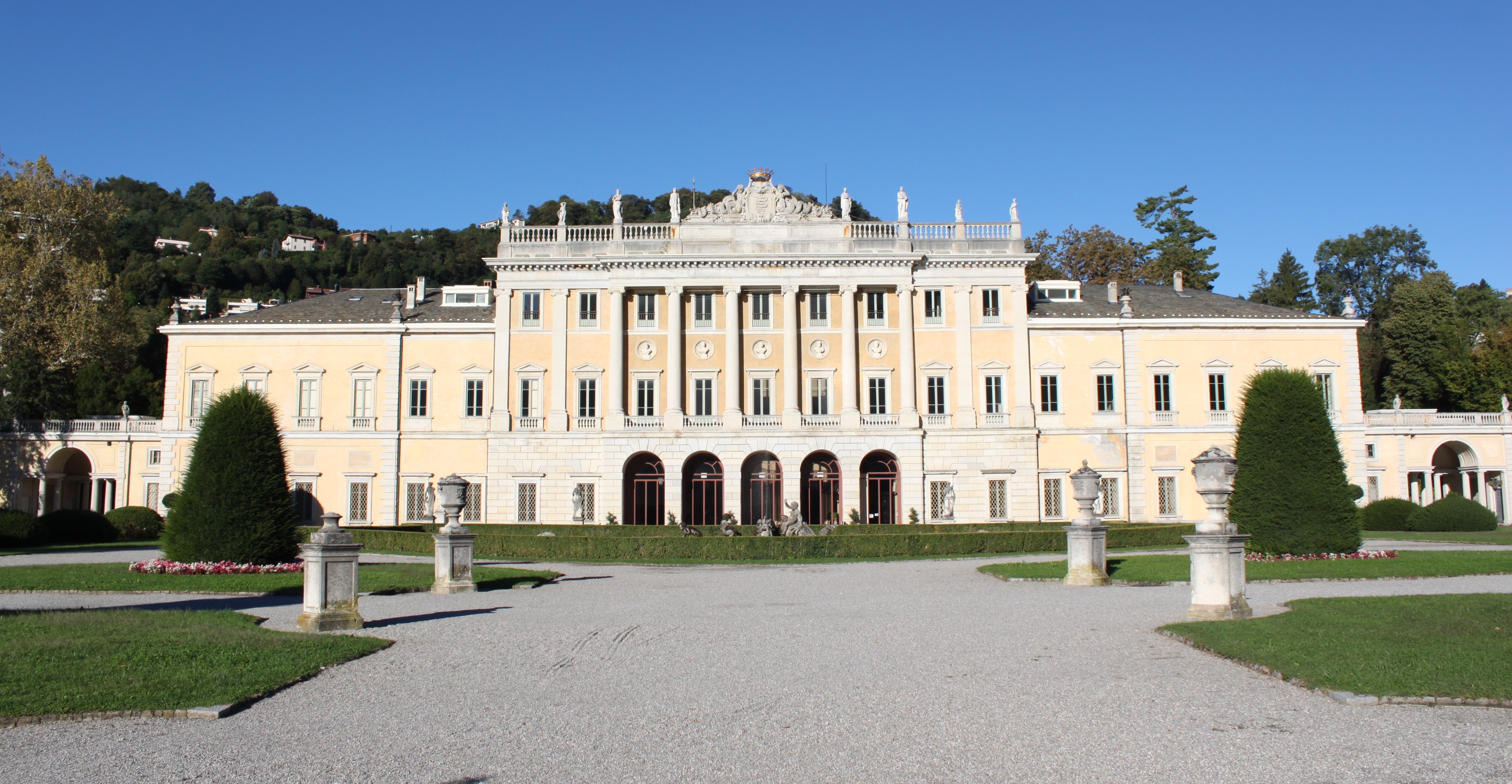 Como, Italy